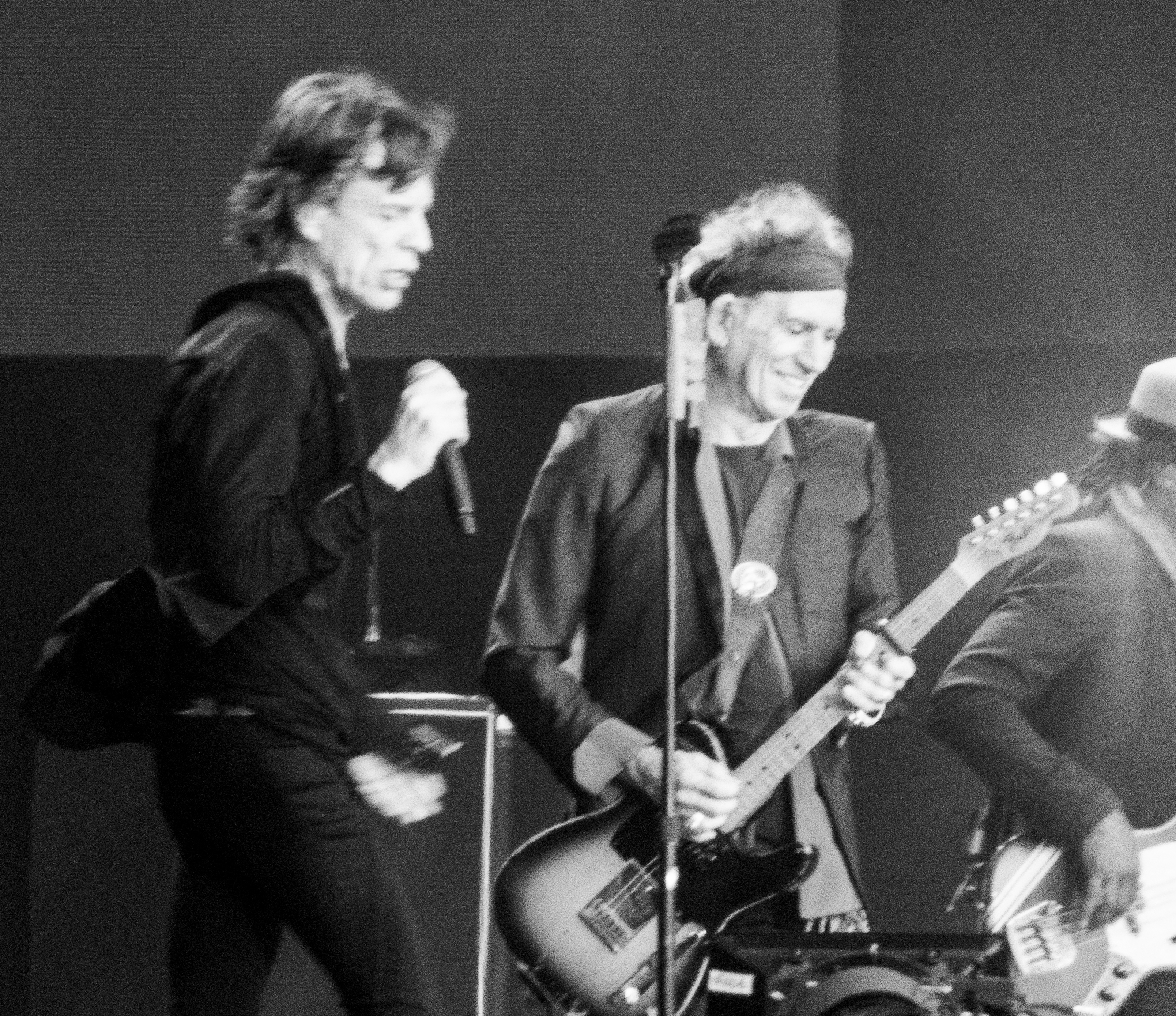 Mick Jagger (left) and Keith Richards from The Rolling Stones at British Summer Time Festival in Hyde Park during a Rolling Stones concert, July 6, 2013